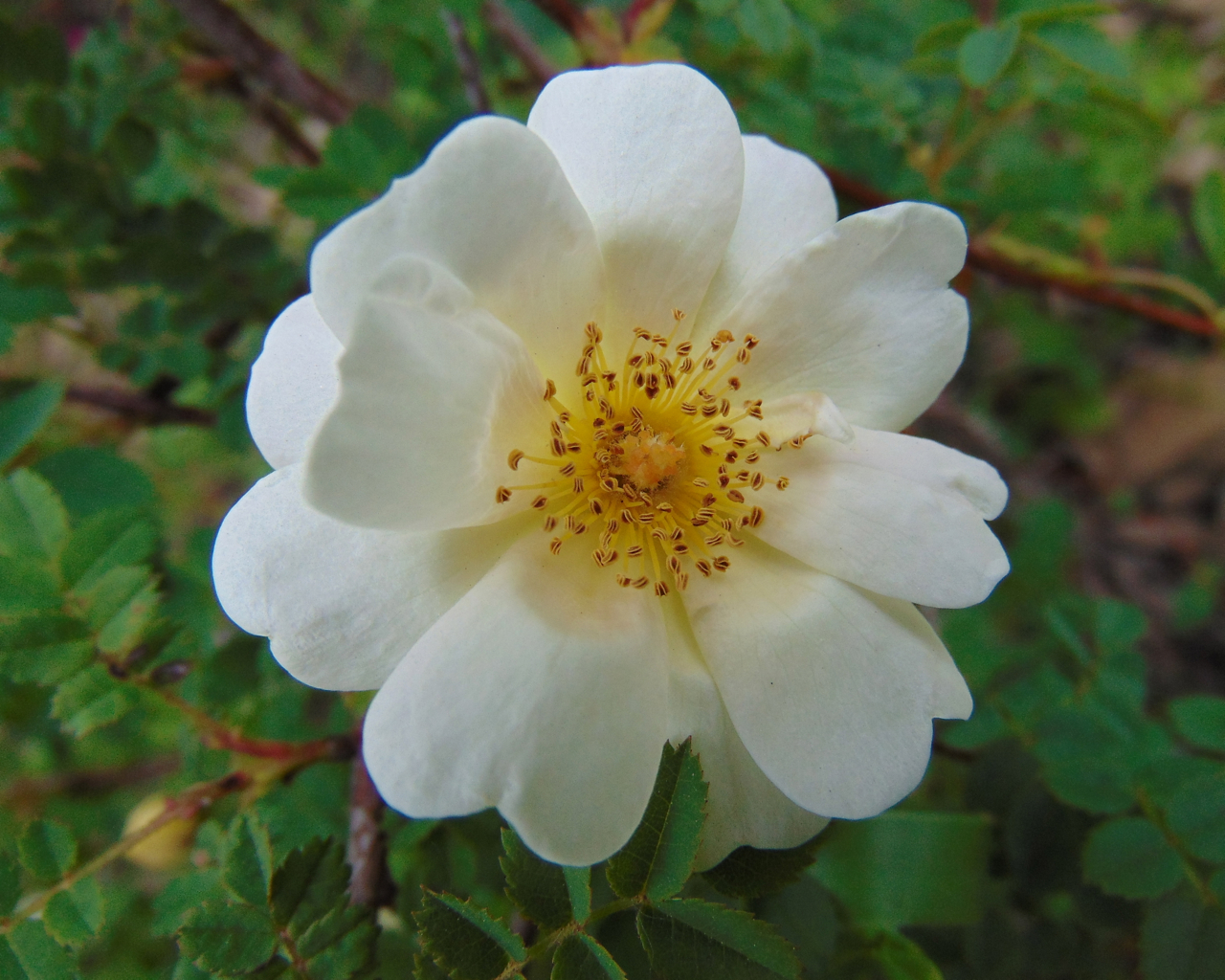 Jardin Botanique de Montréal, Rosa 'Orinda'